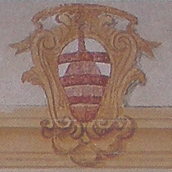 Fresco of the coats of arms of tha Amidei